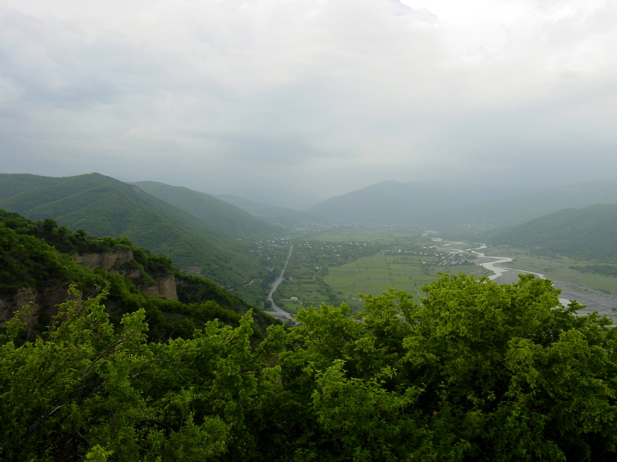 A view of the Aragvi river from a hill in Bodorna.